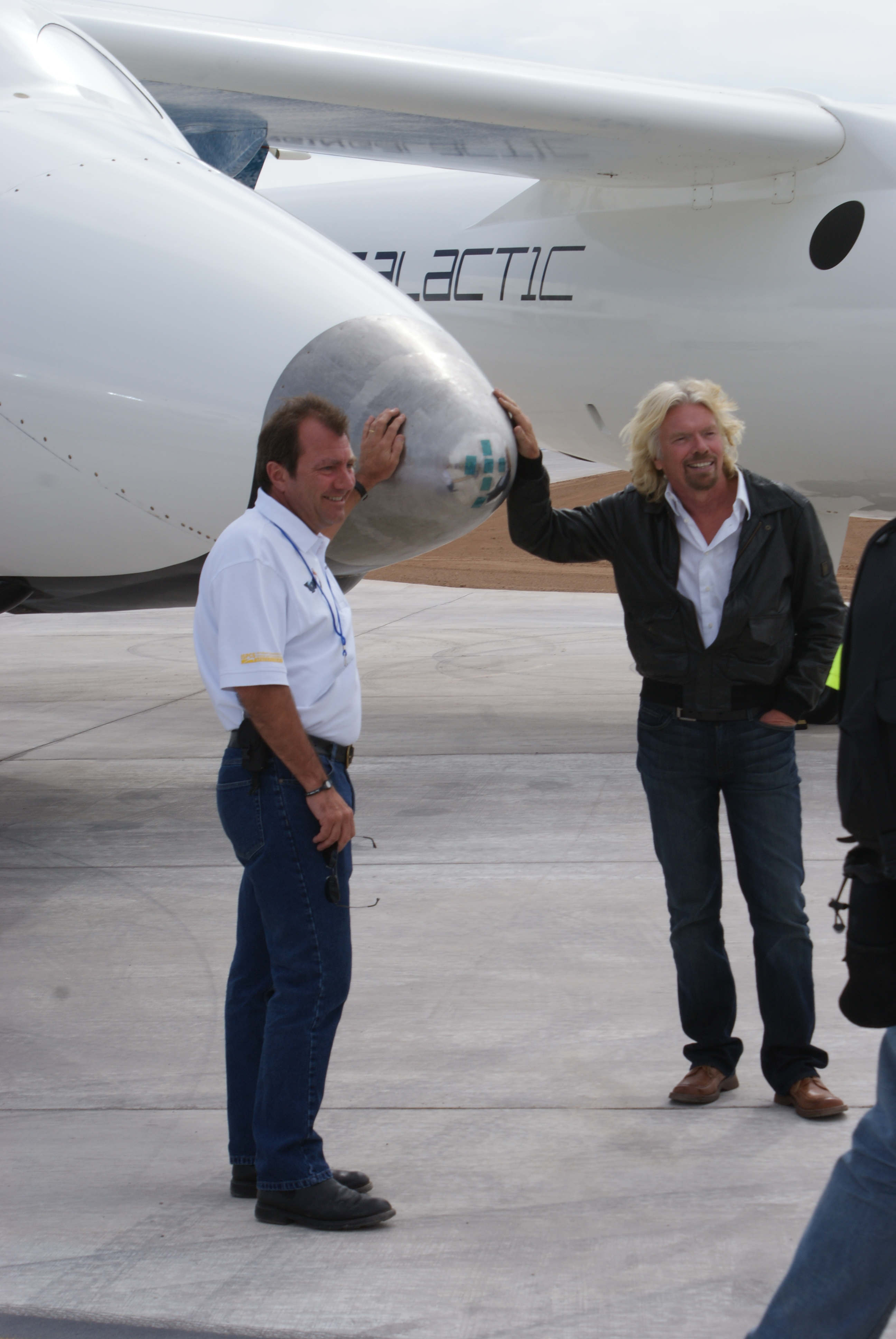 Whitehorn, Branson, and the nose of SS2, 2010